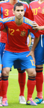 Martin Montoya playing for Spain U-21 NT